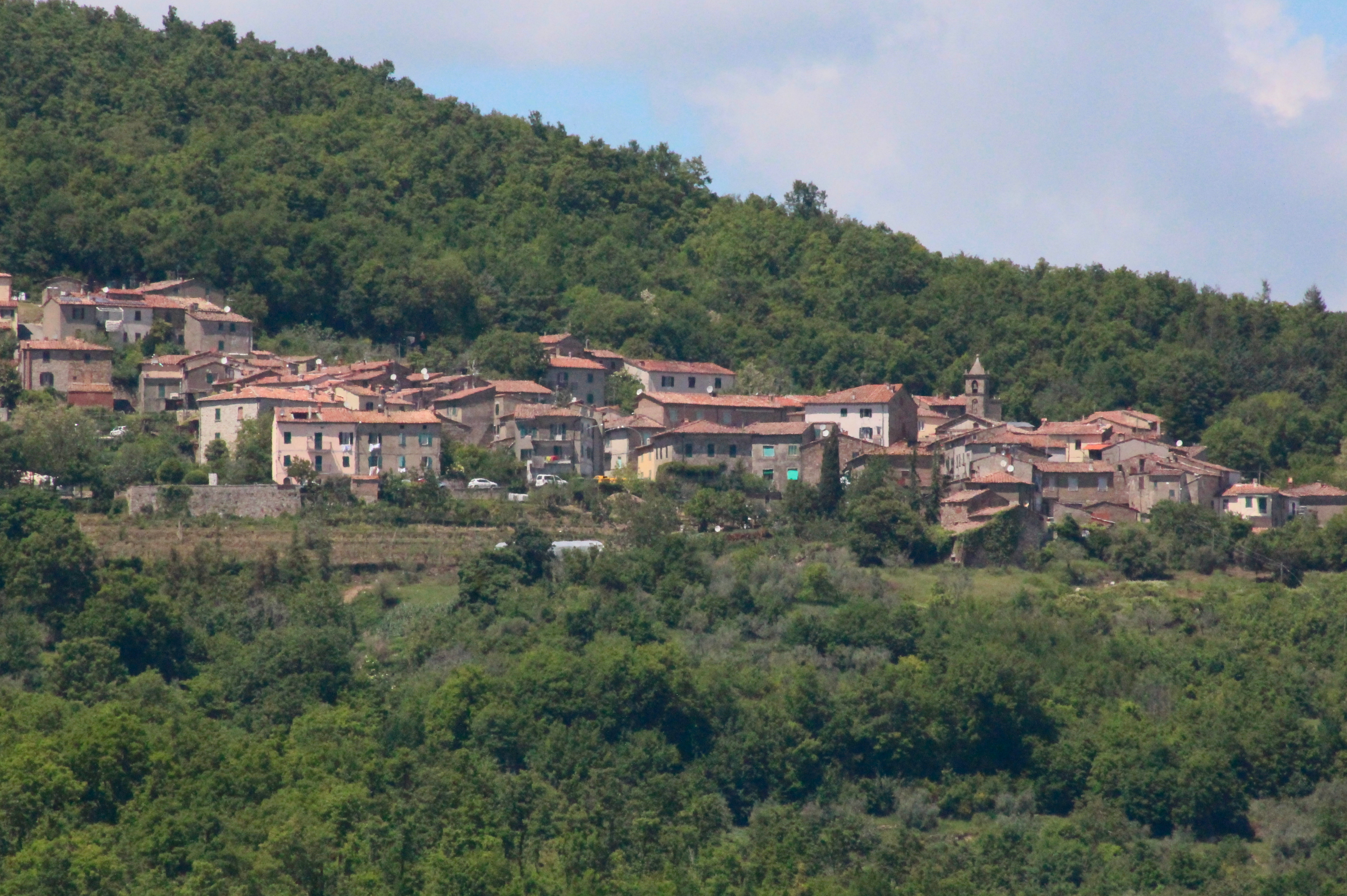 Ciciano, hamlet of Chiusdino, Province of Siena, Tuscany, Italy